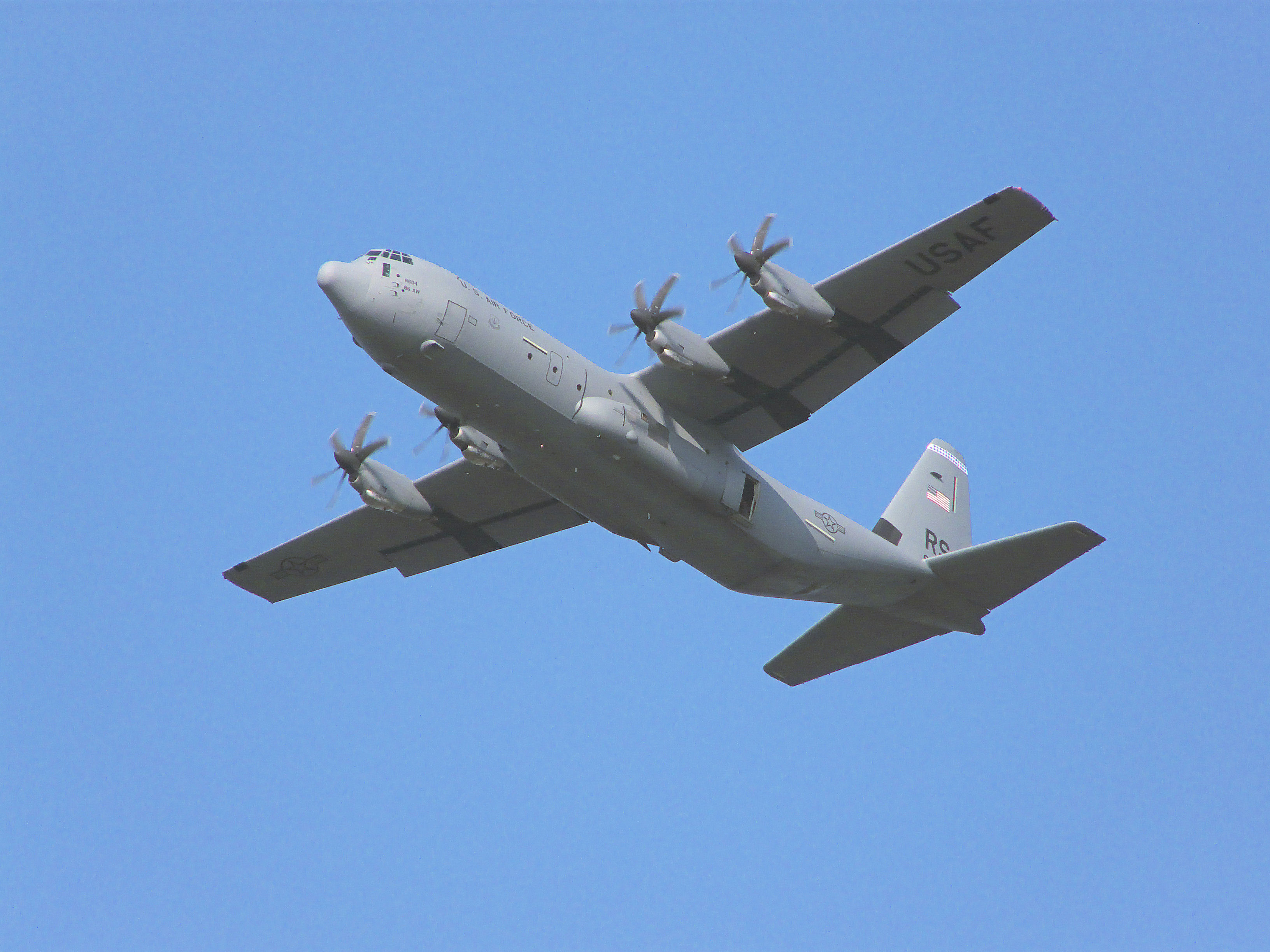 Commemoration of Operation Market-Garden, Ginkelse heide, Ede